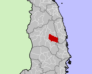 Kong Chro District, Gia Lai Province, Vietnam.